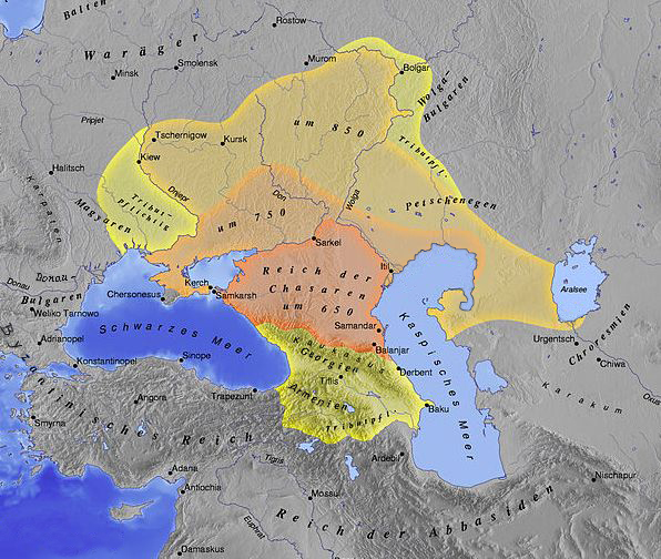 The city of Tmutarakan (Samkarsh) and its international relations during Khazar times (618-1048) and later.